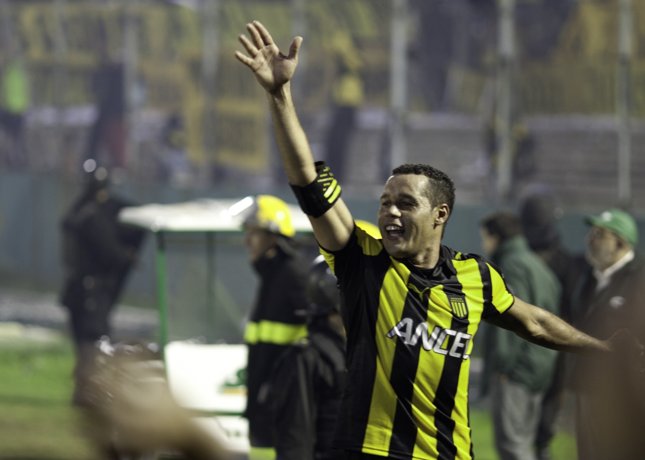 Peñarol player, Dario Rodriguez after winning the Uruguayan Championship